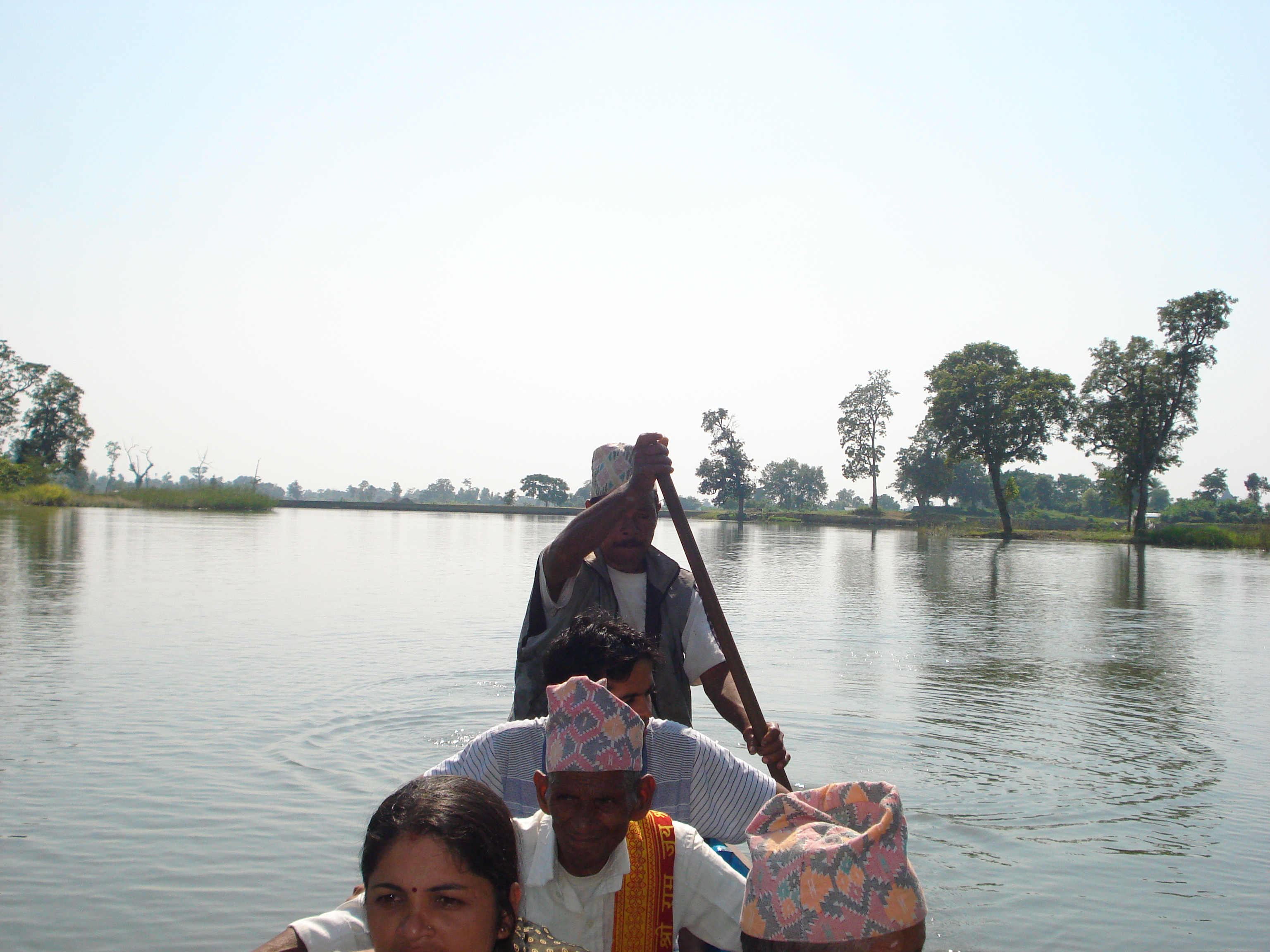 Boating on Gajedi Taal